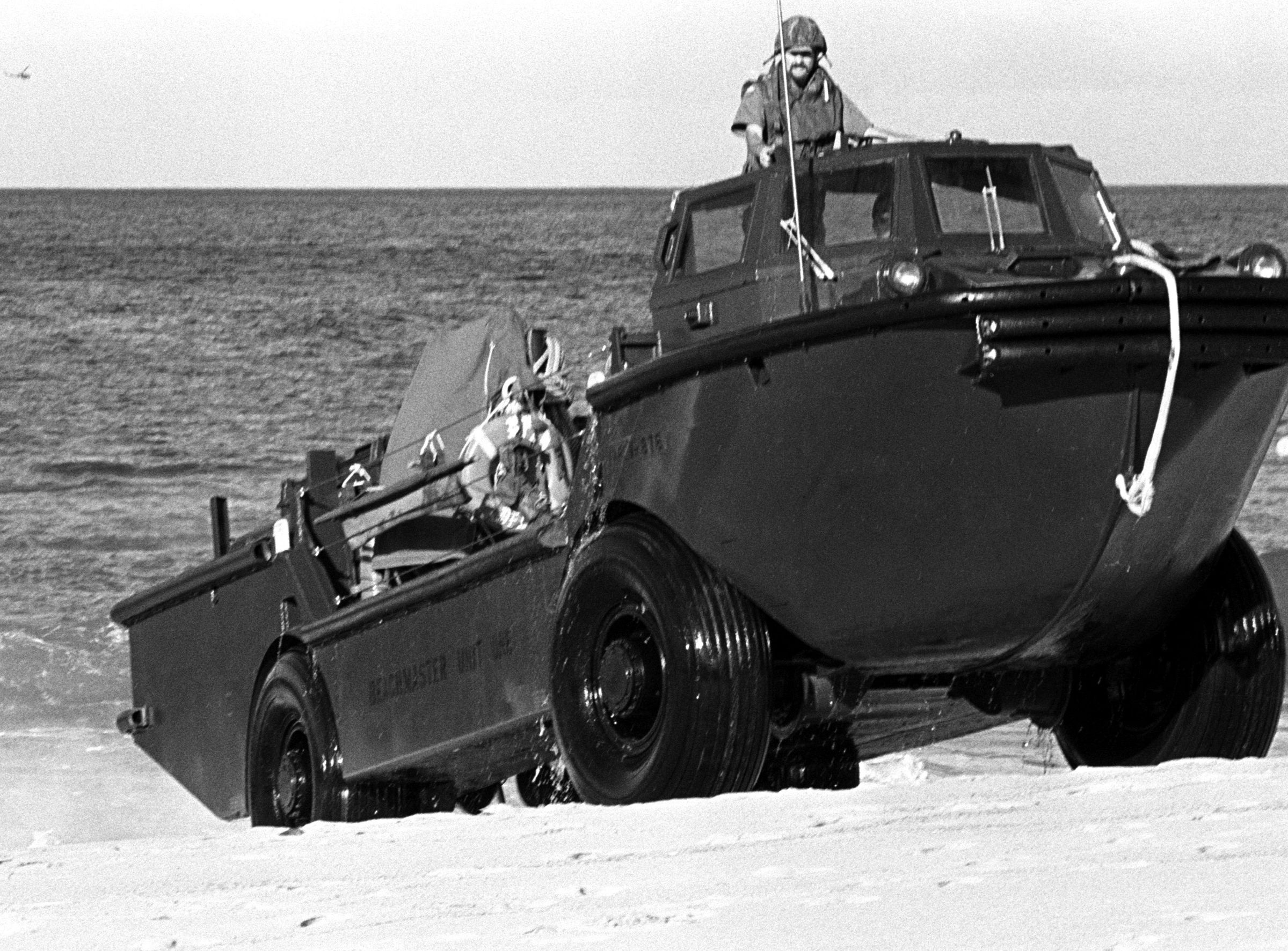 Navy beachmasters come ashore at Makua Valley Beach aboard an amphibious resupply cargo lighter (LARC V) during Operation KERNAL BLITZ. Location: KANEOHE BAY, HAWAII (HI) UNITED STATES OF AMERICA (USA)